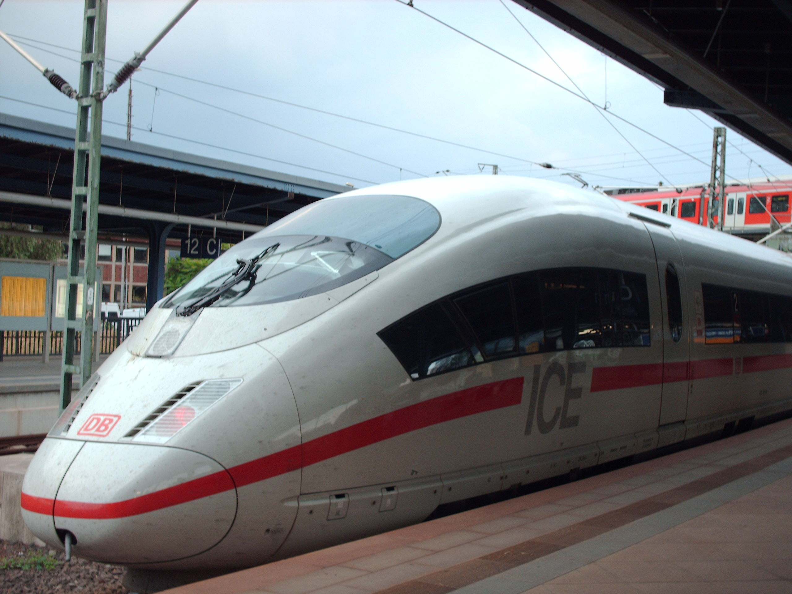 ICE and S-Bahn at Messe/Deutz Station, Cologne, Germany check usage